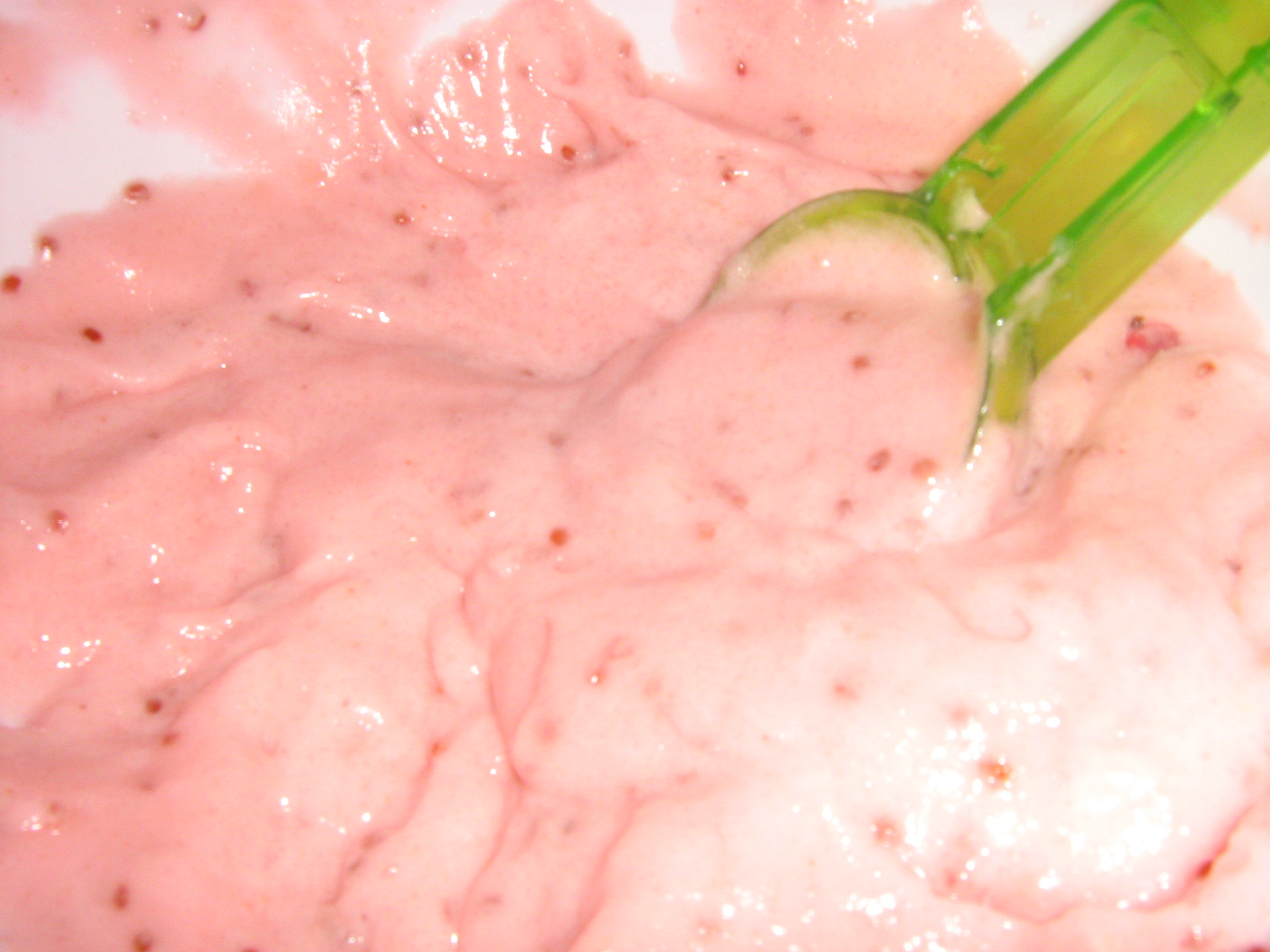 Dessert made from whipped semolina wheat farina (manna) and red currant porridgeLatviešu: Debesmannā